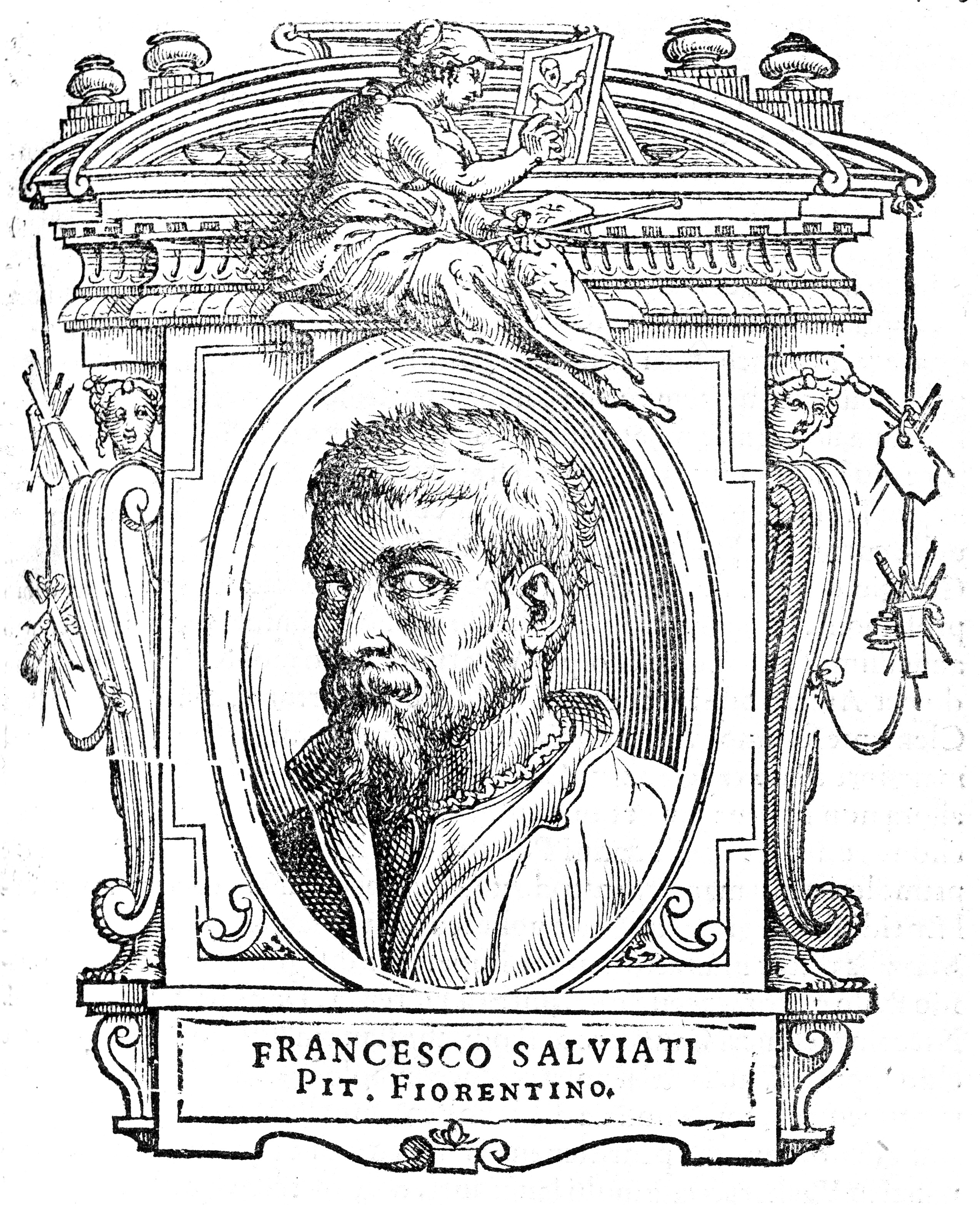 Plate of Francesco Salviati from Le vite de’ piv eccellenti pittori, scvltori, e architettori (Fiorenza: Appresso i Giunti, 1568), by Giorgio Vasari (1511-1574). Typ 525 68.864, Houghton Library, Harvard University